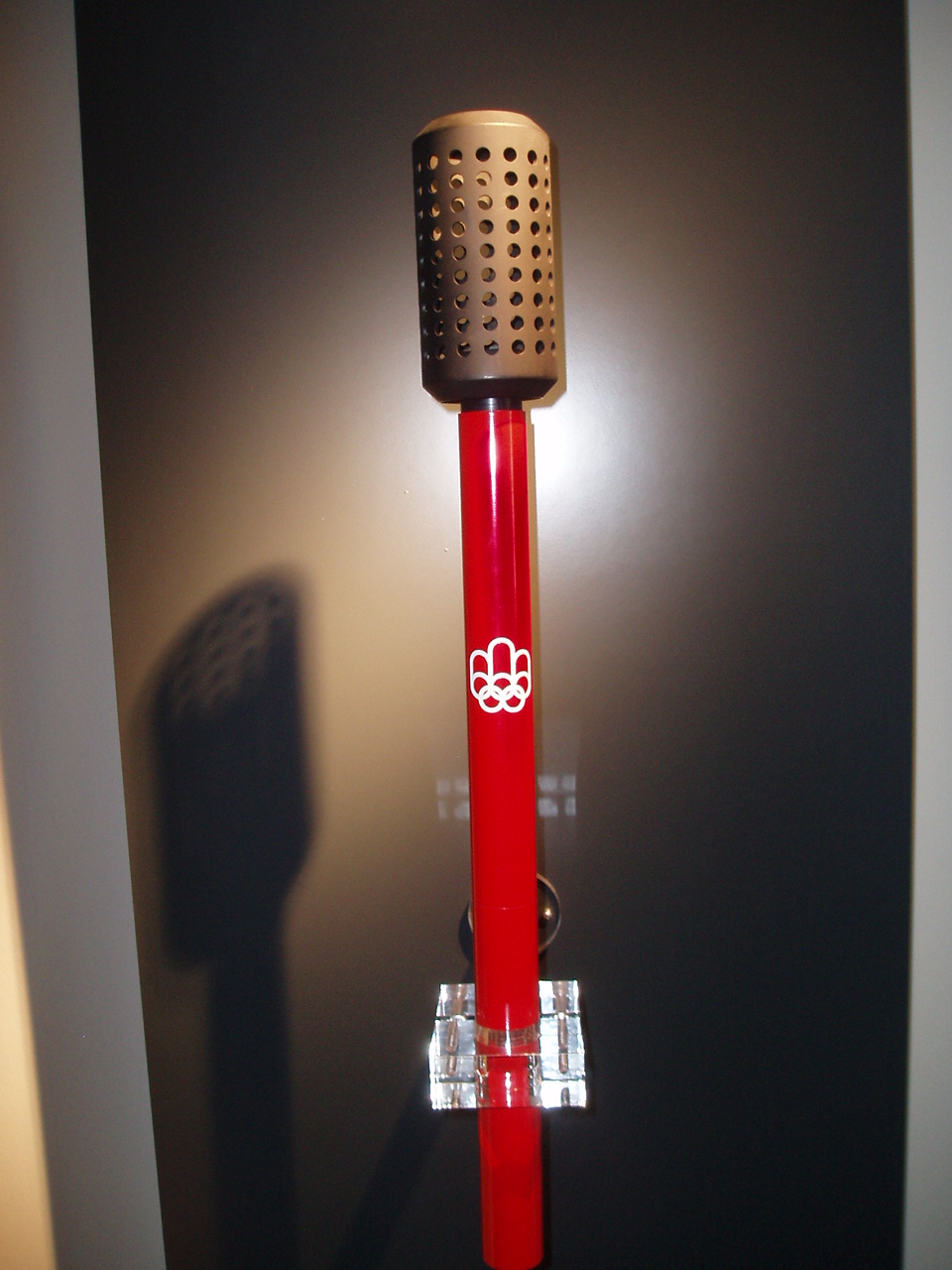 Torch of Montreal 1976 Olympic Games